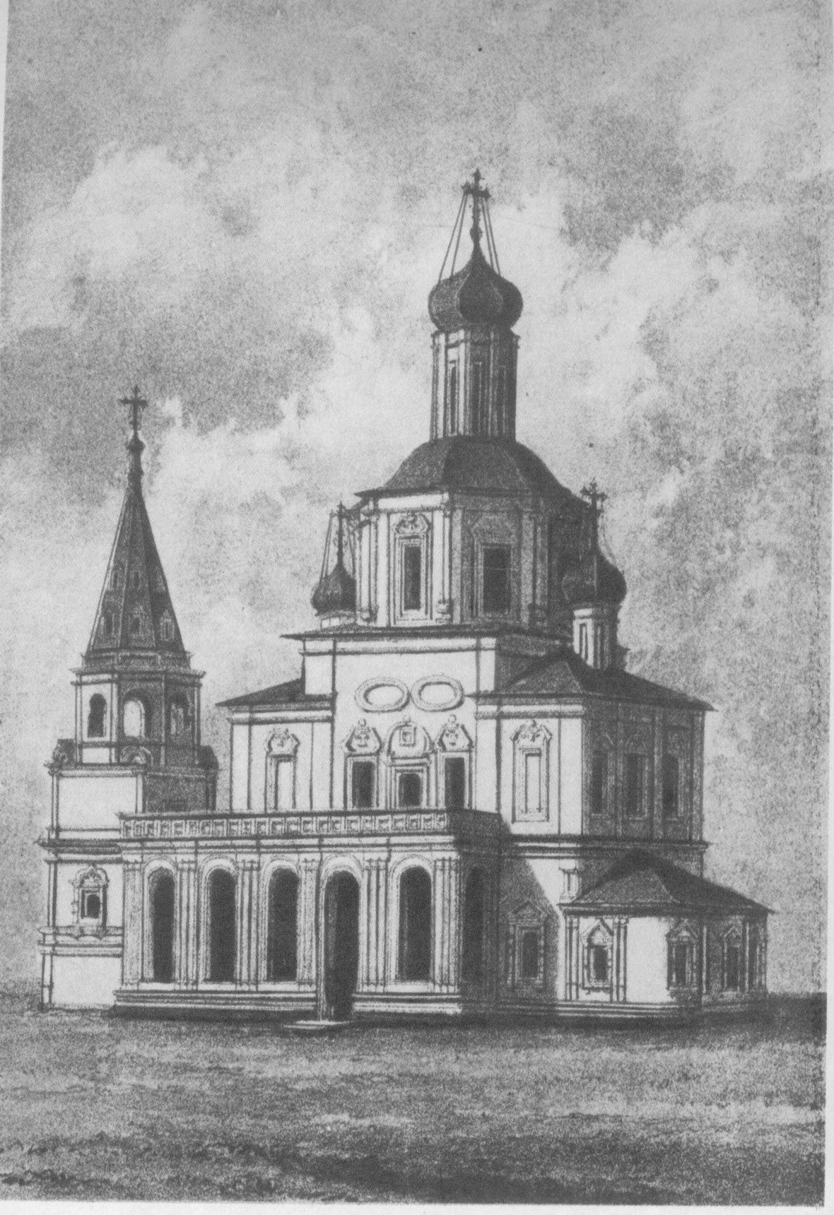 Church of Prince Joasaph of India in Izmaylovo (destroyed 1936). Lithograph. XIX century